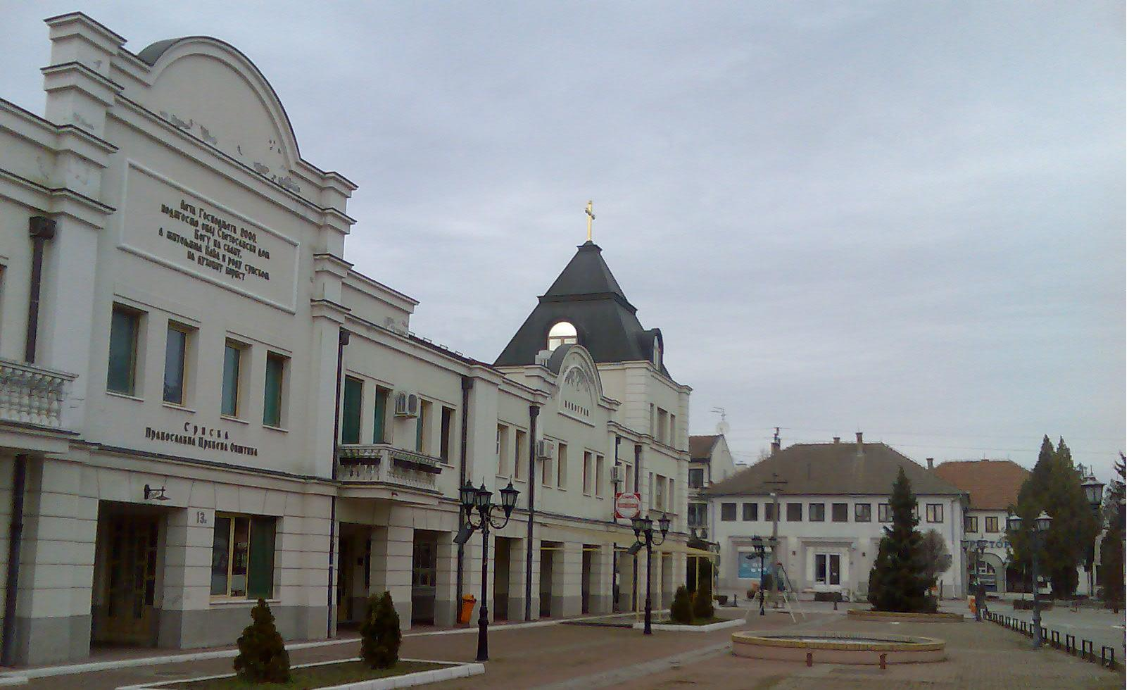 Kac info